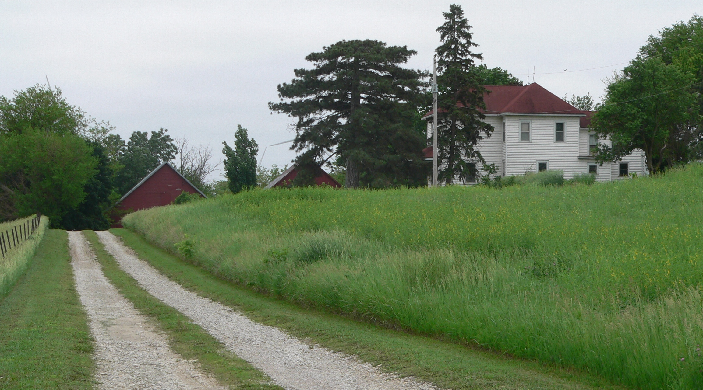 Alfred and Magdalena Schmid farmstead, located at 63683 704 Rd, southwest of Dawson in rural Richardson County, Nebraska. View is from the north, down the lane from 704 Rd.